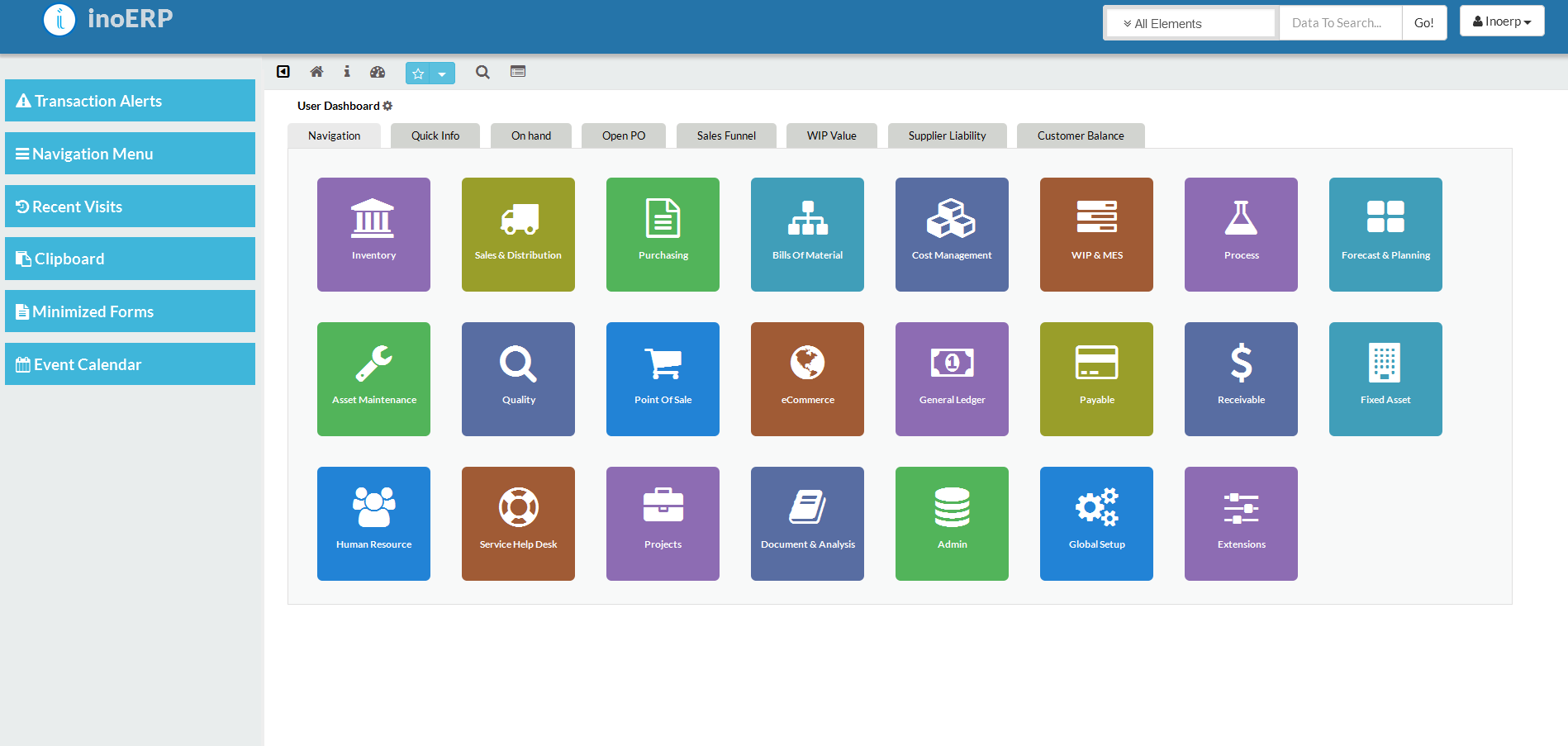 inoERP Dashboard